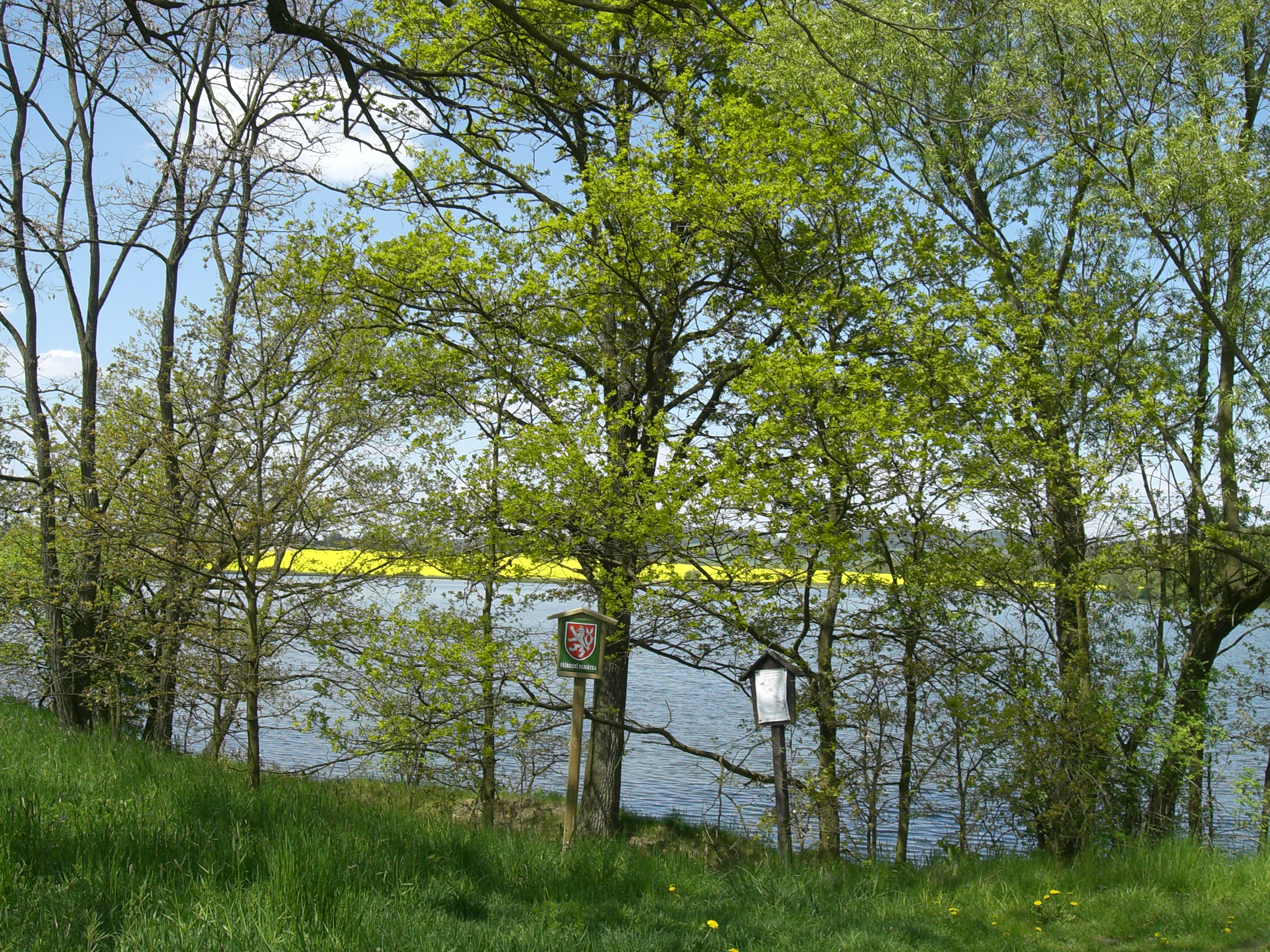 Nature protected area Velký Potočný near Kestřany in Písek district, Czech Republic.